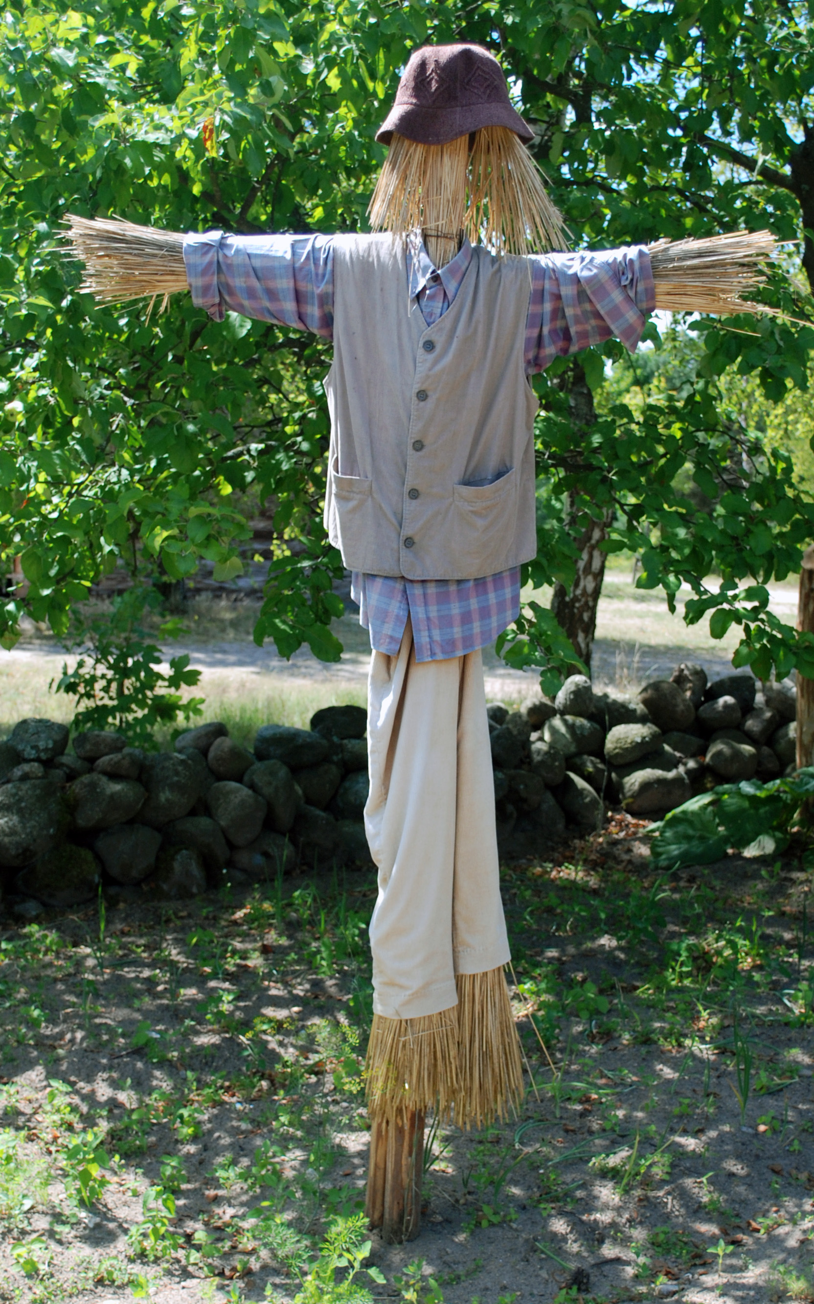 Traditional scarecrow from Wdzydze (Poland)